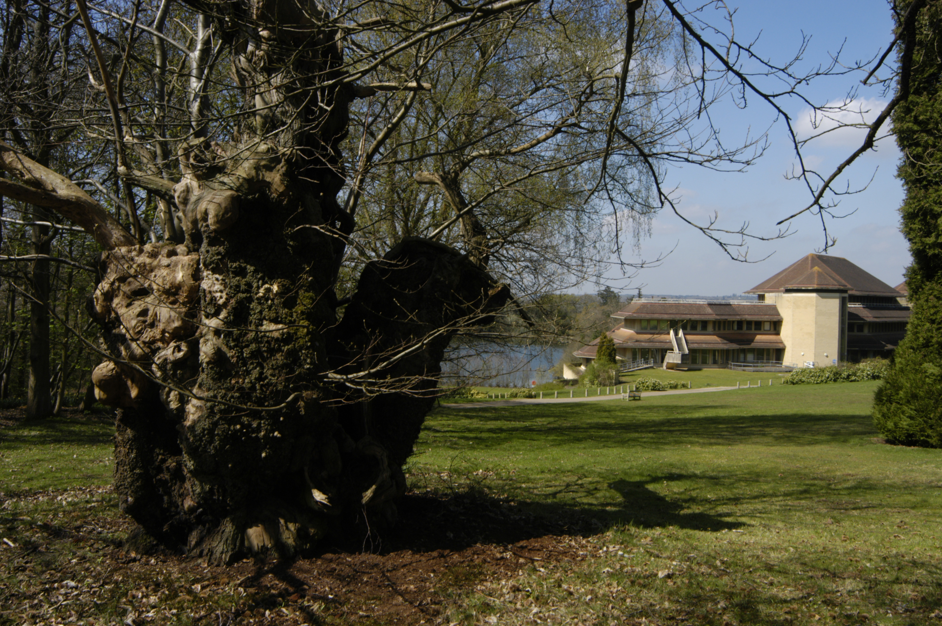 Ancient pollard sweet chestnut in western Berkshire's Aldermaston court's derelict wood pasture, April 2017.